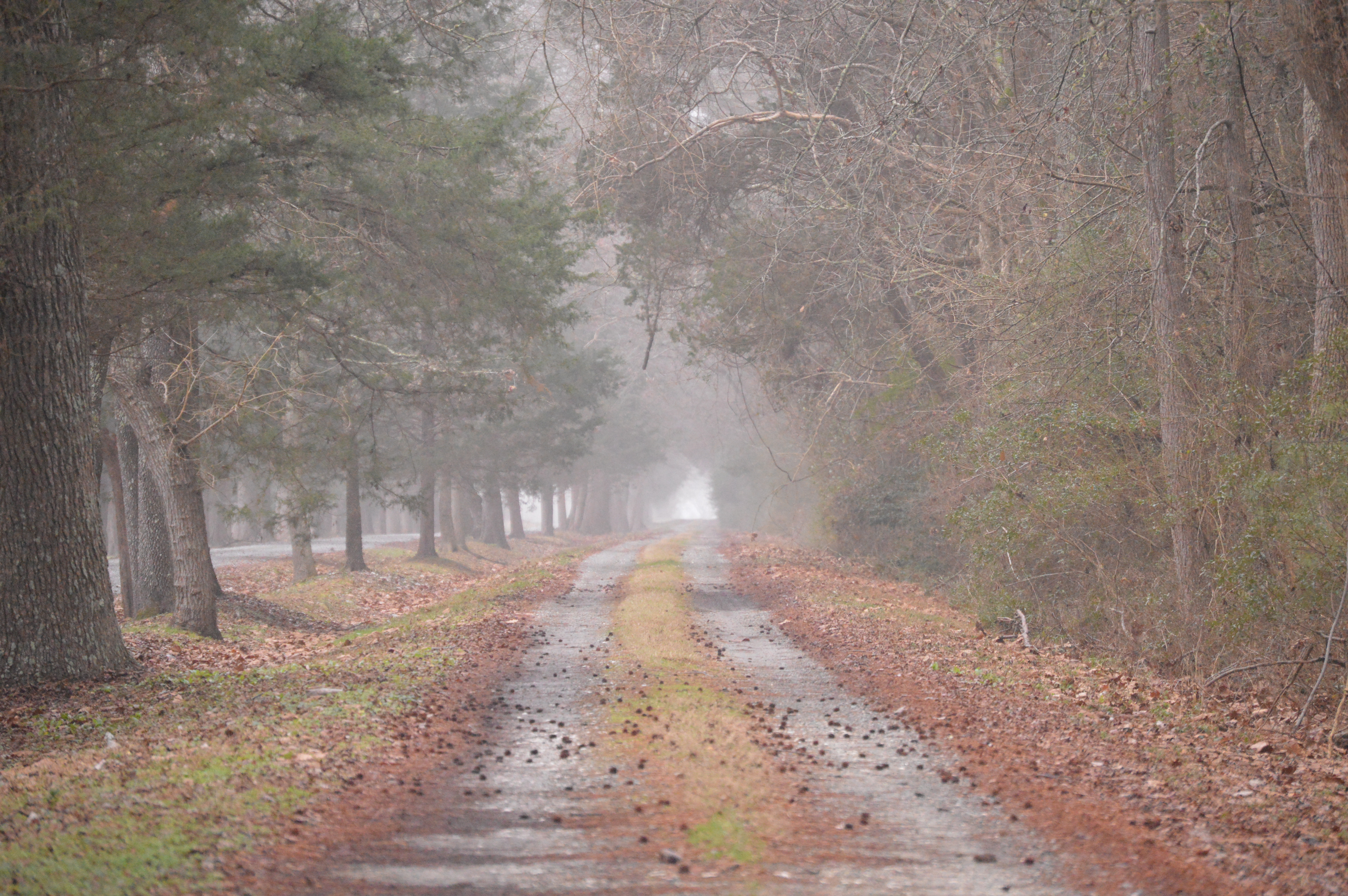 Looking down the driveway for the Lowland Cottage, located at 6740 Ware Neck Road east of Gloucester Courthouse in Gloucester County, Virginia, United States. The farmstead is listed on the National Register of Historic Places.